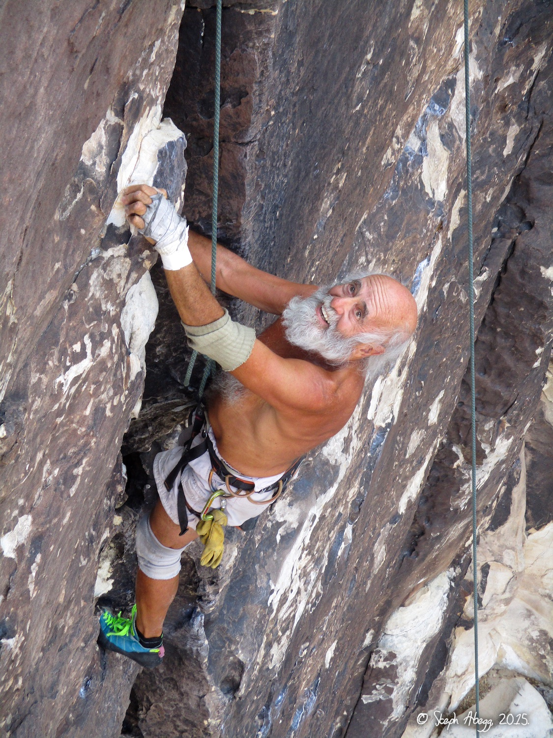 Jorge Urioste climbing Black Track (5.9, 100') in Willow Springs.